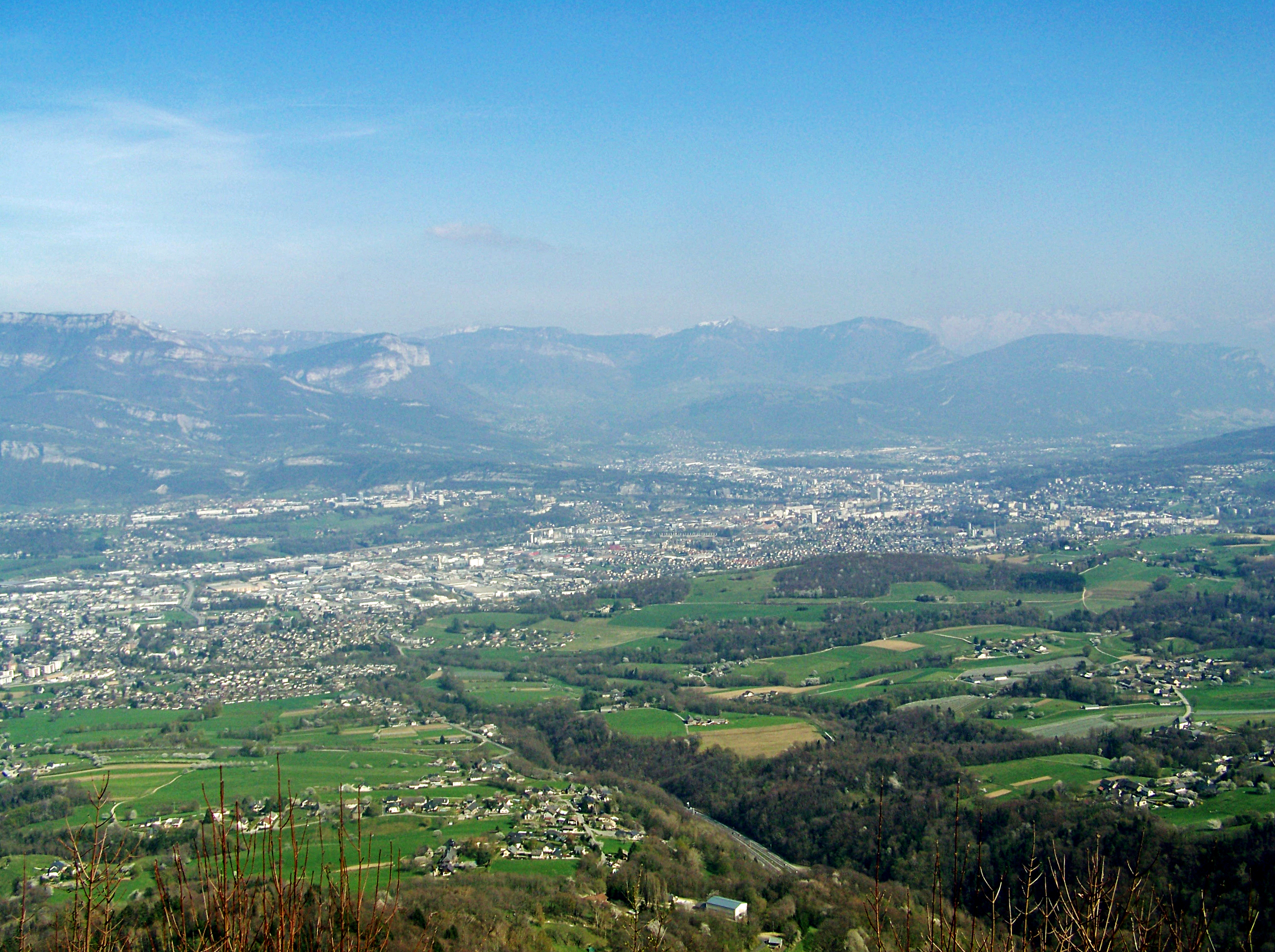 Landscape of Chambéry city and area, seen from the road leading to the col de l'Épine pass (about 900 meters high) in Savoie, France.